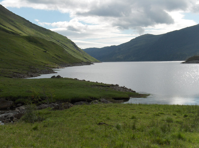 Loch Mullardoch. At the inflow of Allt Coire a' Mhaim and Allt Socrach.